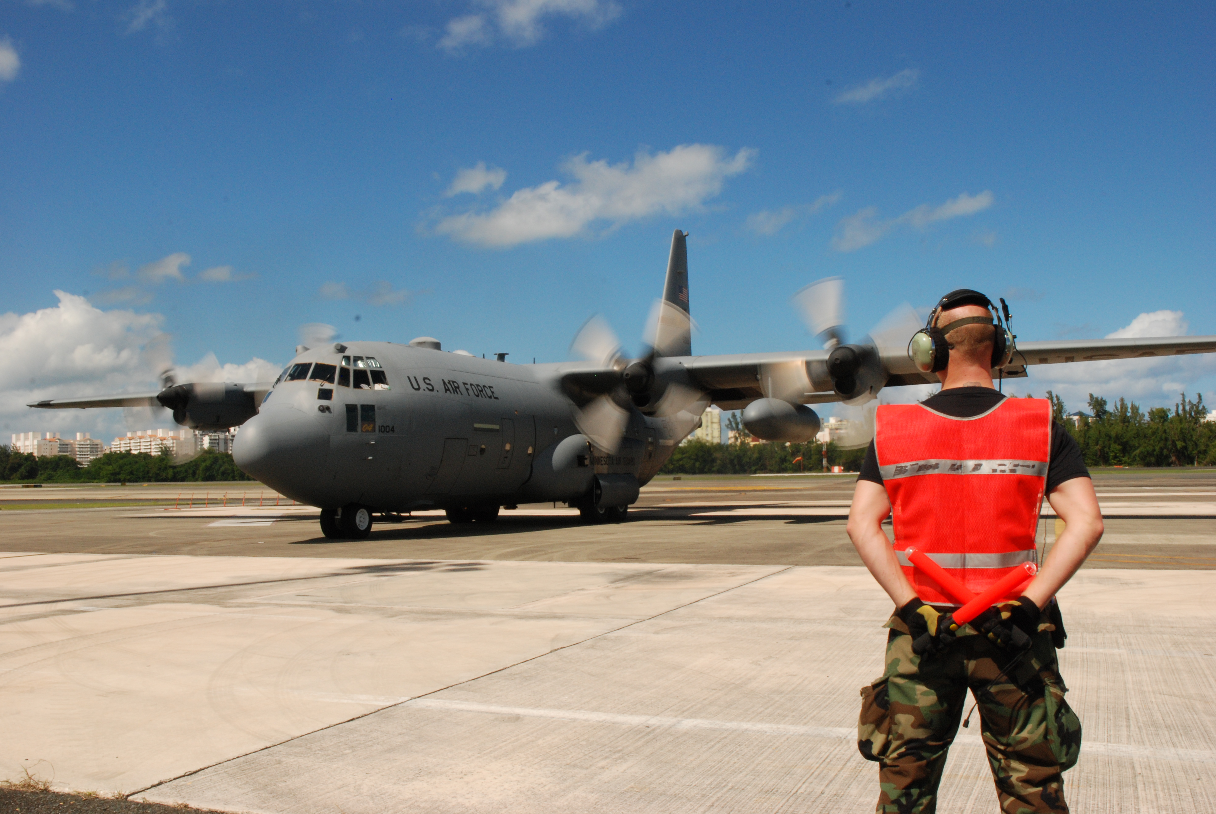 Tech. Sgt. Leon Peterson, 35th Expeditionary Airlift Squadron propulsion technician, assigned from 133rd Airlift Wing, St. Paul, Minn., stands ready and waiting to marshal out a C-130 in support of Operation Unified Response. Aircrews and maintenance personnel from the Minnesota Air National Guard unit are serving at Muniz Air National Guard Base, Puerto Rico on a two-week rotation in support of the U.S. Southern Command's Coronet Oak mission. (U.S. Air Force photo/Master Sgt. Stan Coleman)